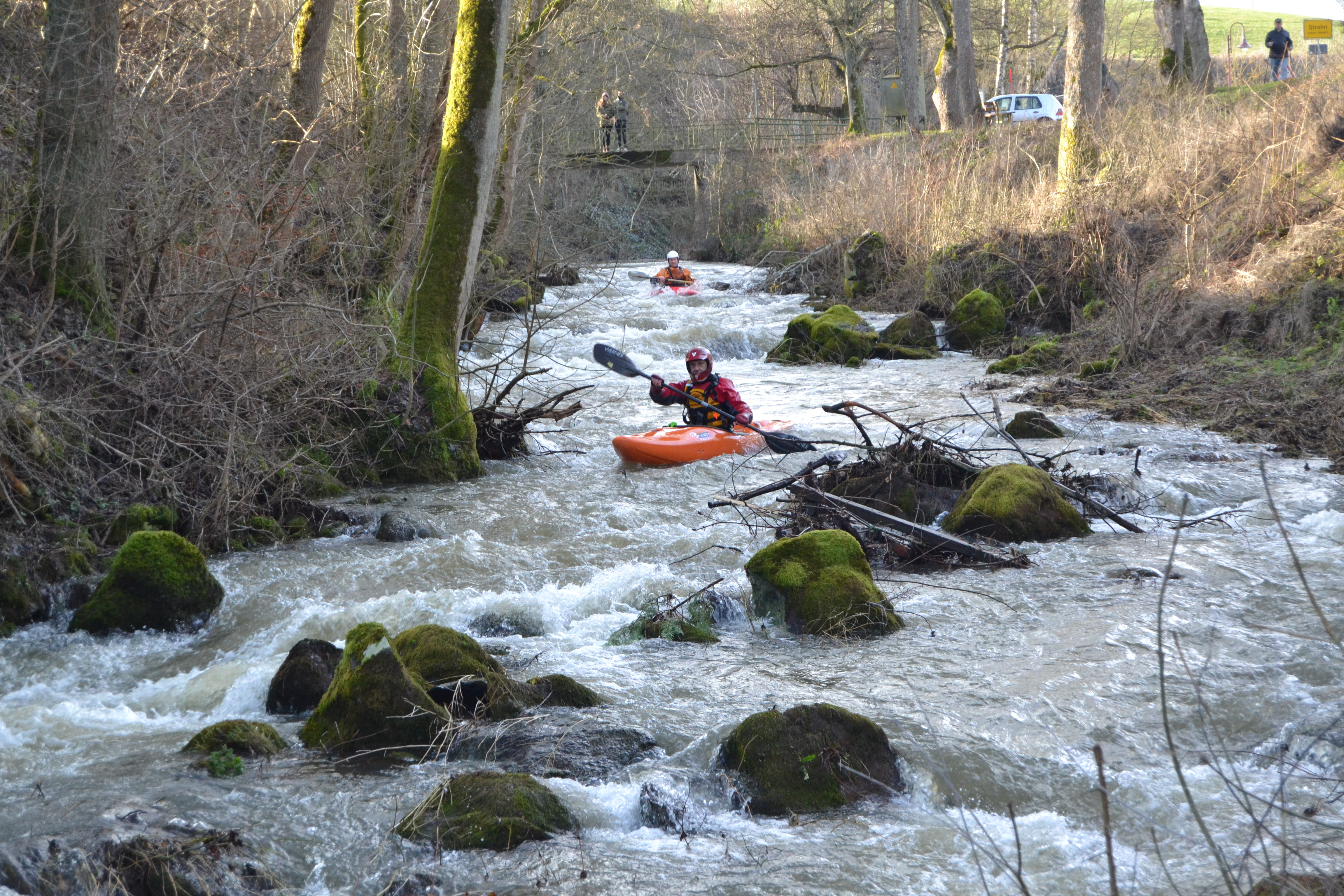 Kajaking on the river Alf in the Eifel landscape, Germany